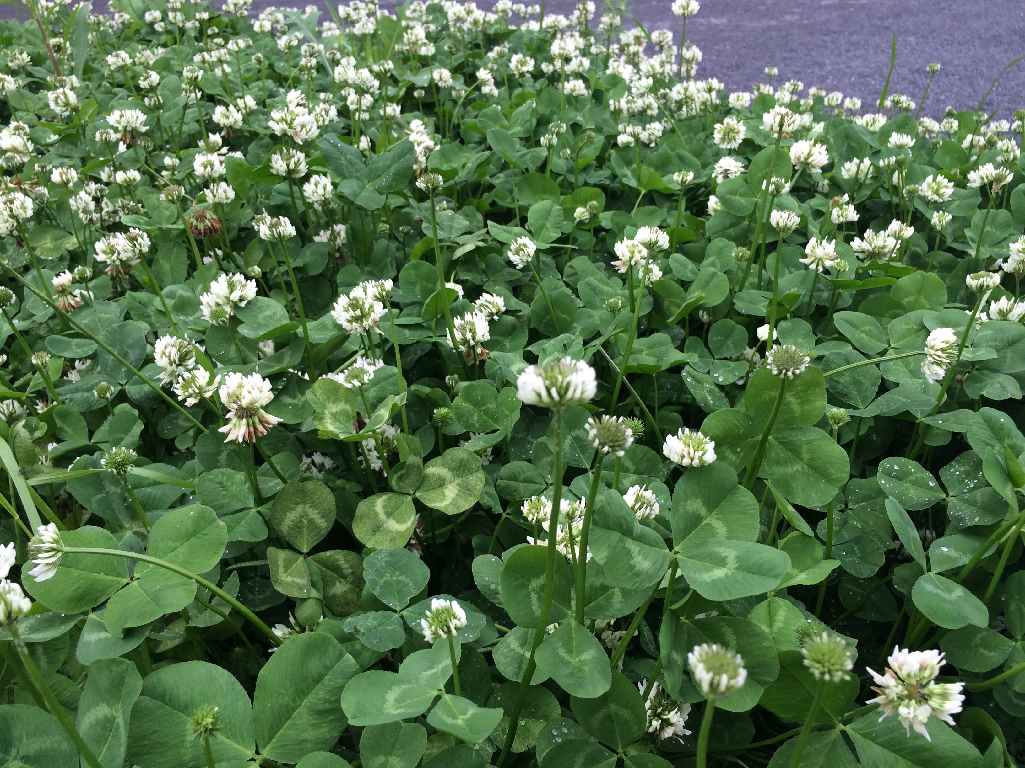 Trifolium repens 中文（中国大陆）: 白 车 轴 草